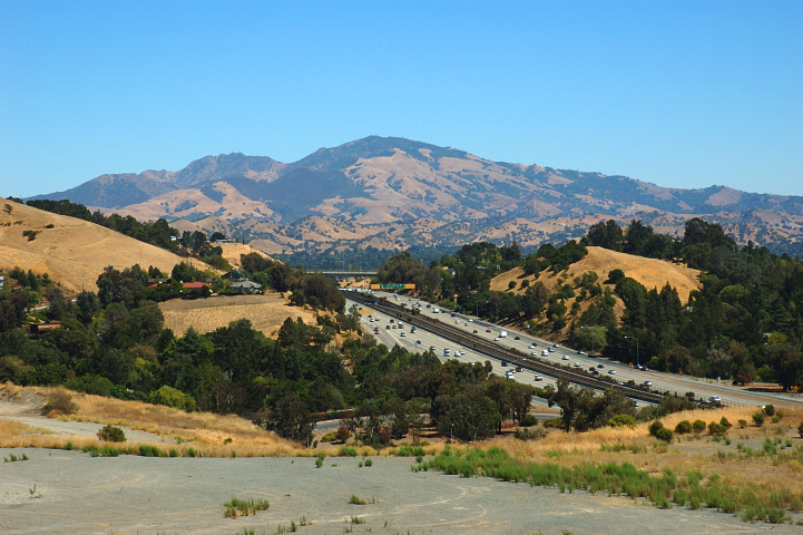 View of Mount Diablo and California State Route 24.